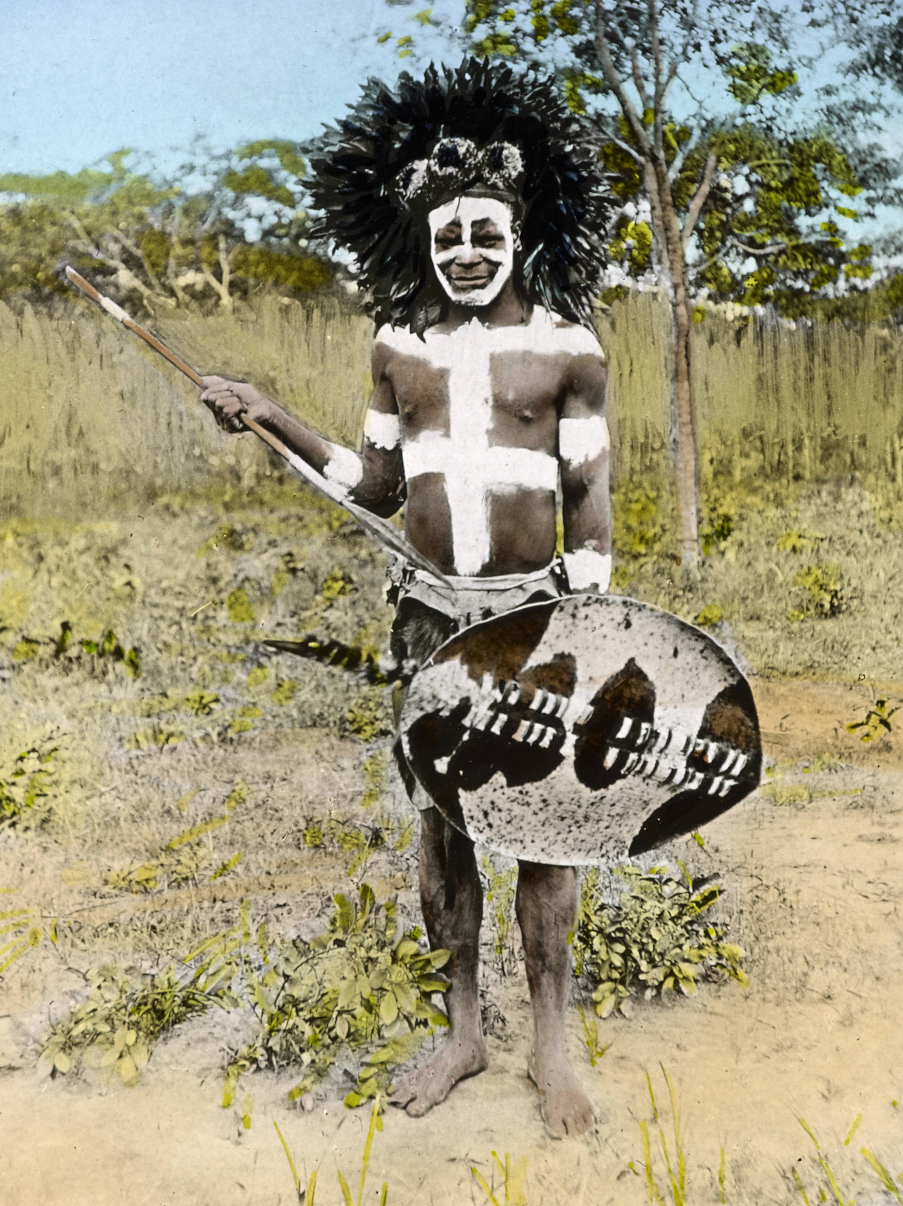 "Clay-daubed Ngoni Warrior, Livingstonia" Malawi, ca.1895 Photograph of a Ngoni warrior dressed in traditional tribal dress, including head dress. The warrior is carrying a spear and shield and his face and body are painted with clay.; The Ngoni people are an ethnic group living in Malawi, Mozambique, Tanzania and Zambia. Their origins can be traced to the Zulu people of kwaZulu-Natal in South Africa. Photographer: Unknown Filename: imp-cswc-GB-237-CSWC47-LS3-1-013.tif Coverage date: circa 1895 Part of collection: International Mission Photography Archive, ca.1860-ca.1960 Type: images Part of subcollection: Photographs from the Centre for the Study of World Christianity, University of Edinburgh, U.K., ca.1900-ca.1940s Repository name: Centre for the Study of World Christianity Archival file: impaunpub_Volume7/1401.url Repository address: The University of Edinburgh School of Divinity, New College, Mound Place, Edinburgh EH1 2LX, United Kingdom Geographic subject (country): Malawi Format (aacr2): 1 lantern slide : 8 x 8 cm. Geographic subject (continent): Africa Rights: Contact the repository for details. Part of series: Elmslie of the Wild Ngoni LS3/1 Repository Subject (lcsh Keyword): Tribes; Ethnic costume Date created: circa 1895 Publisher (of the digital version): University of Southern California. Libraries Subject (aat genre): portraits Format (aat): lantern slides Legacy record ID: impa-m68392 Access conditions: File: GB 237 CSWC47/LS3/1/13